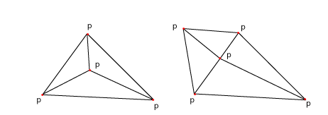 This file contains an example of the Delauney triangularization